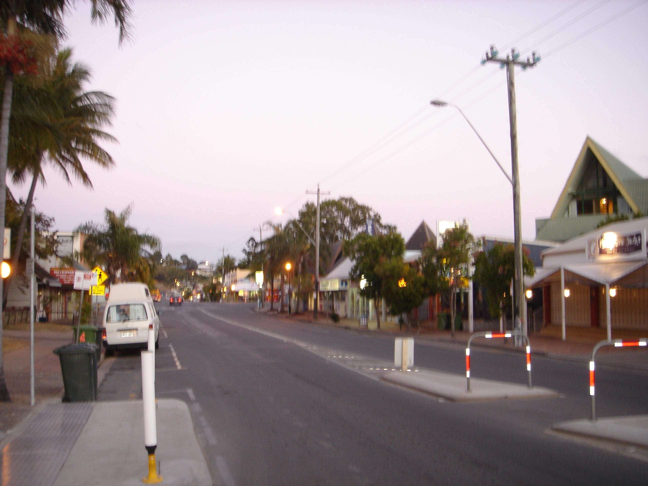 This is looking down the main street of Airlie Beach, Australia